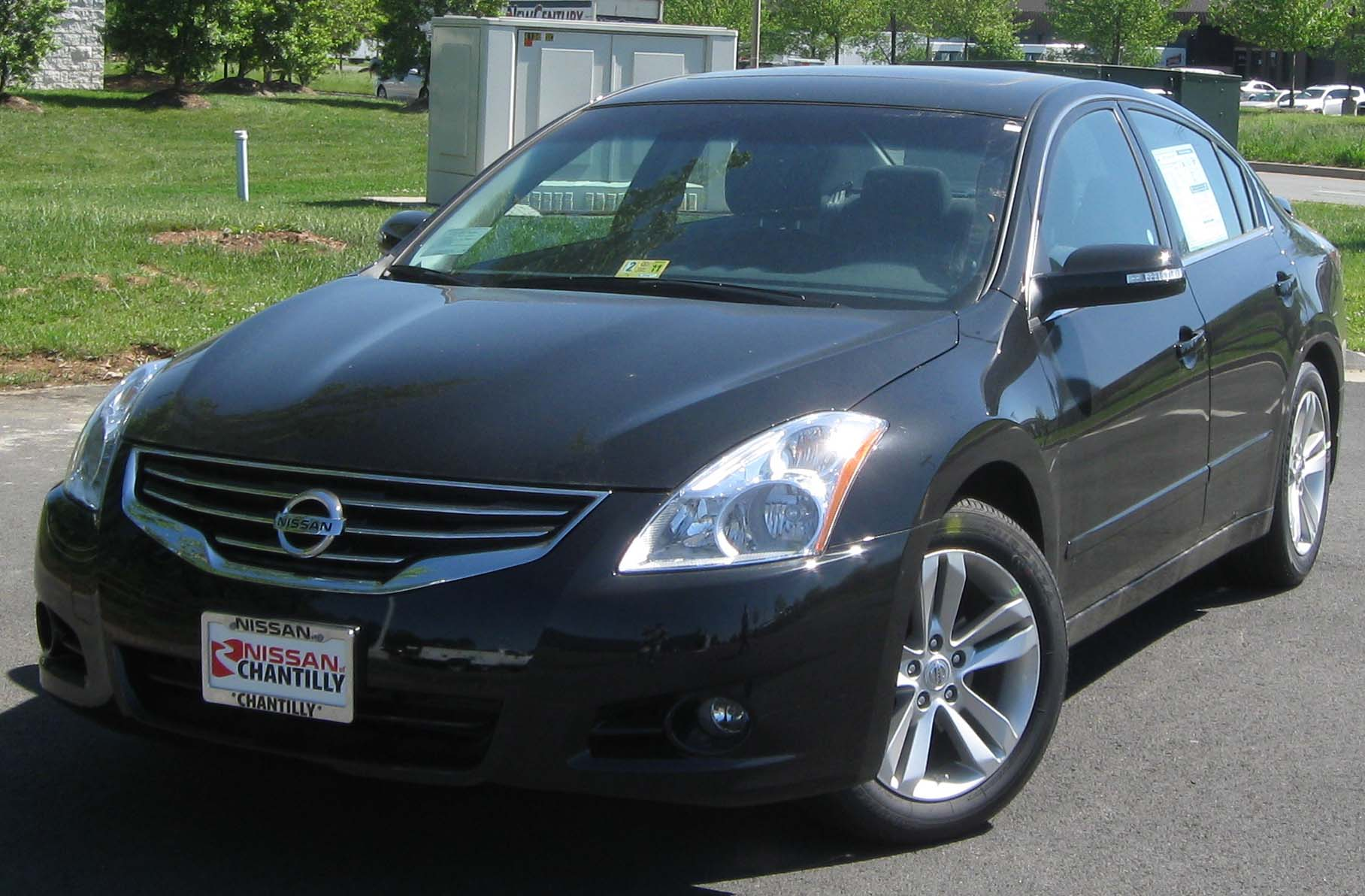 2010 Nissan Altima photographed in Chantilly, Virginia, USA.